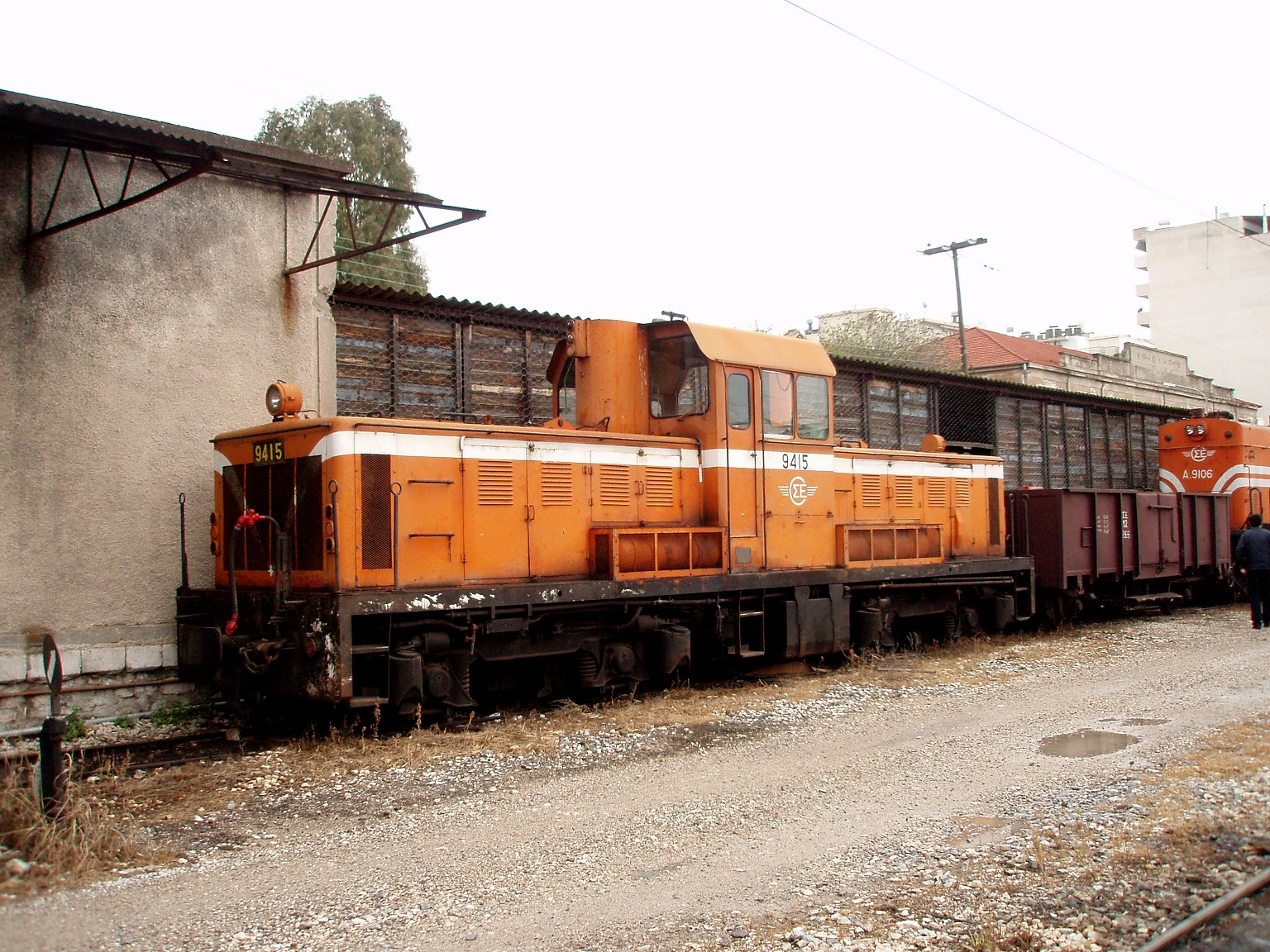 Greece: Mitsubishi 48 BB HI metric gauge shunting diesel locomotive of OSE at Patras Depot.